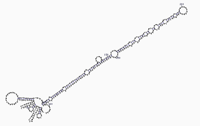 The secondary structure of a precursor microRNA sequence from Brassica oleracea, as predicted by MFOLD ( by M. Zuker. GIF generation by plt22gif, D. Stewart and M. Zuker 2007.